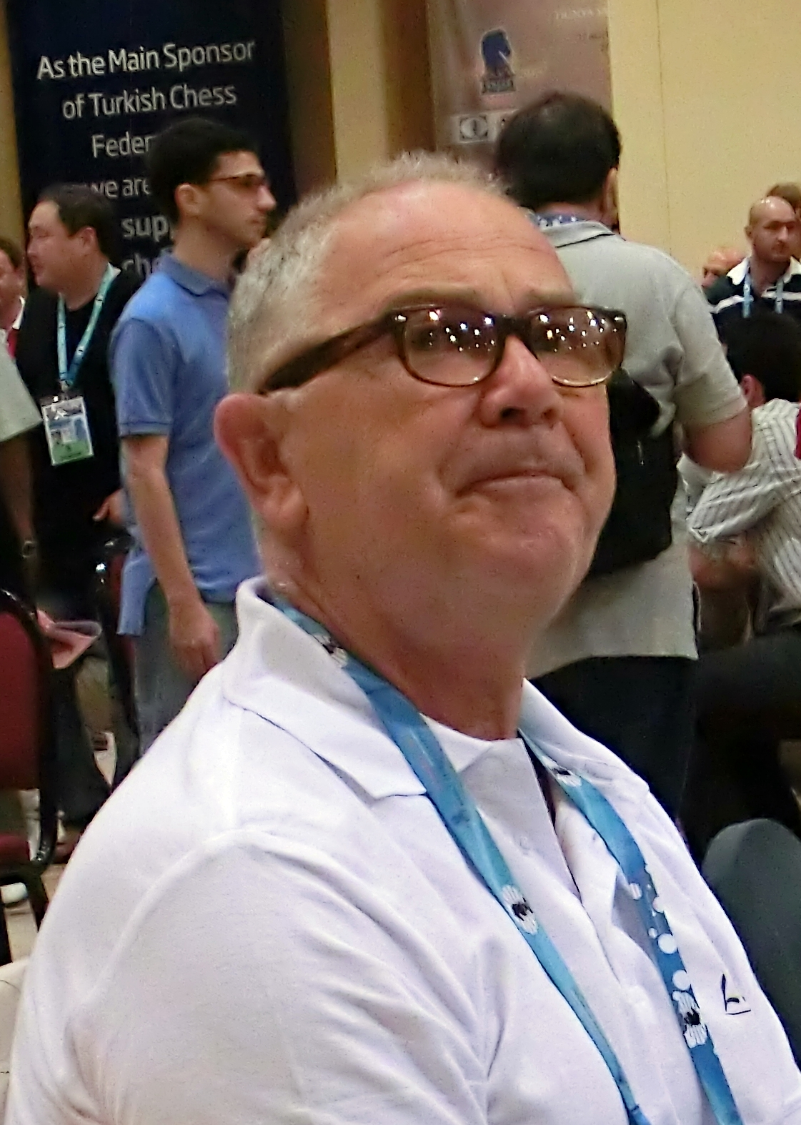 Bojan Kurajica, chess grandmaster from Bosnia and Herzegovina